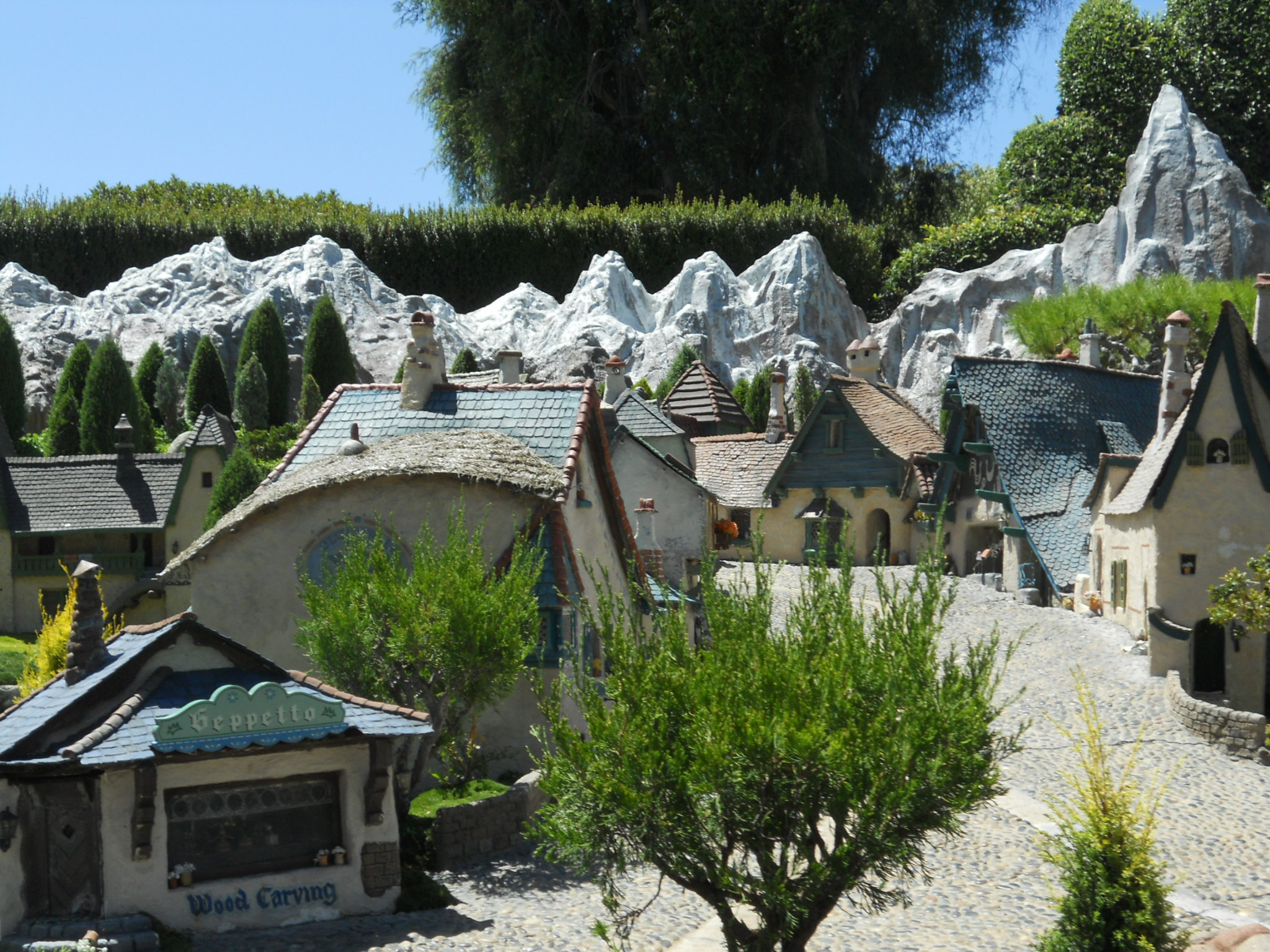 With a view of Geppetto's workshop.